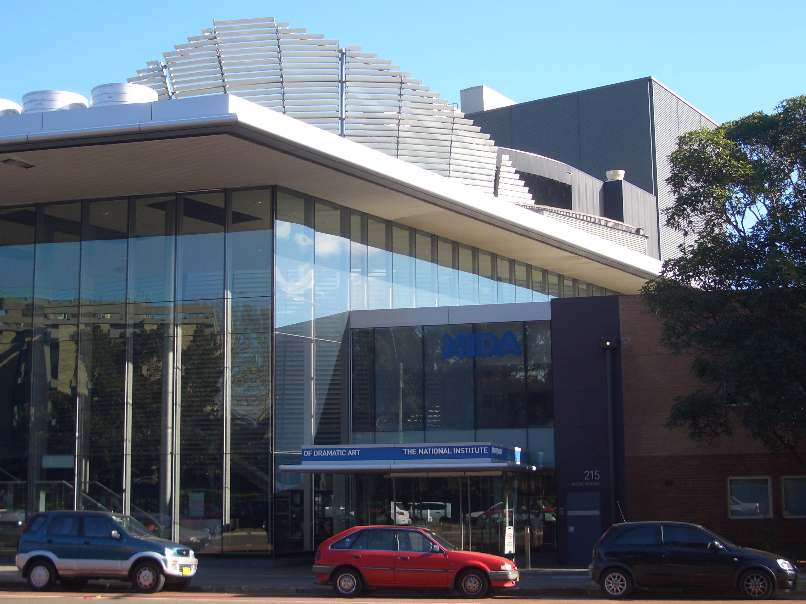 National Institute of Dramatic Art, Kensington